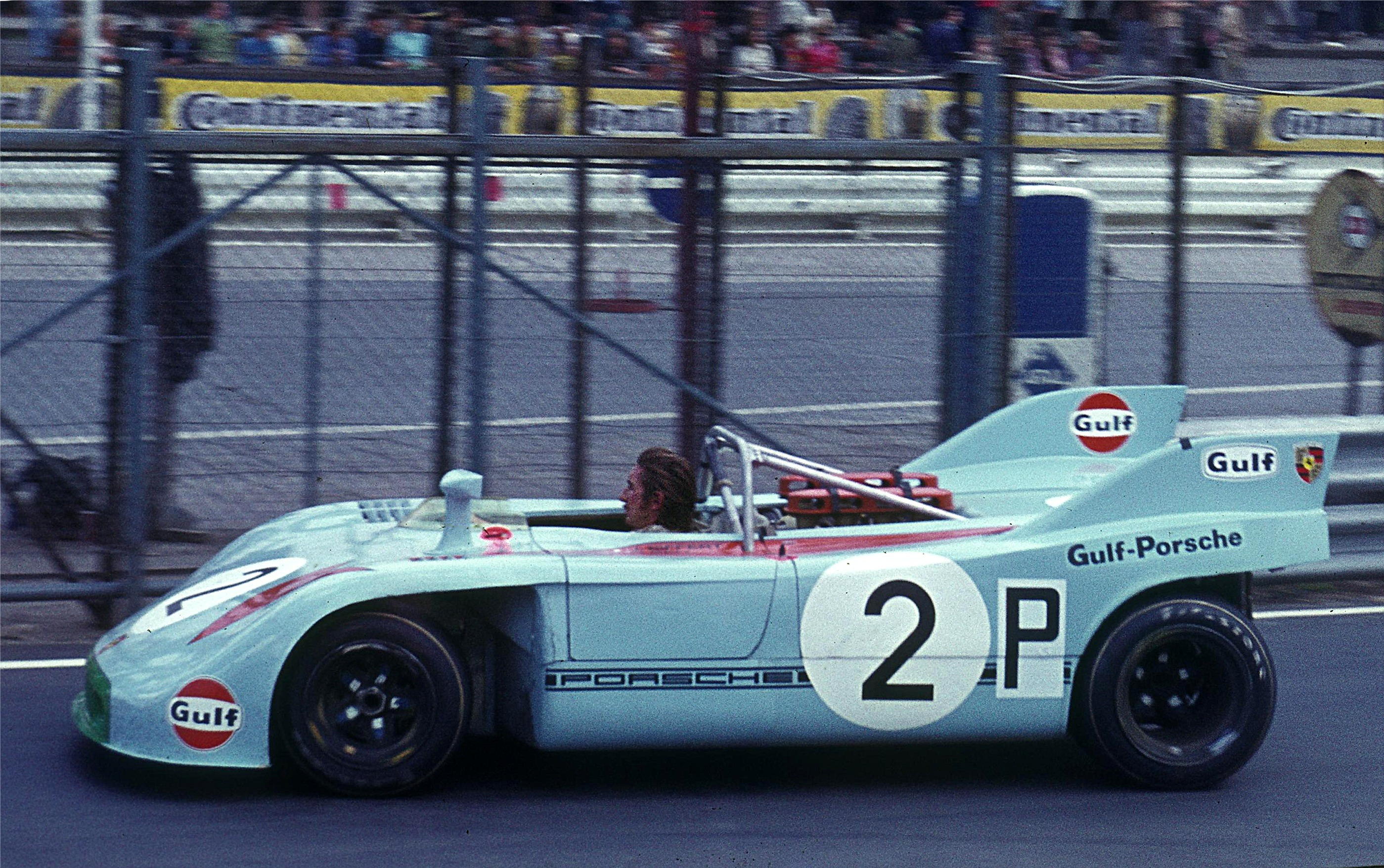 Joseph Siffert with Porsche 908/3 during practice for 1000 km race 1971 at Nürburgring.